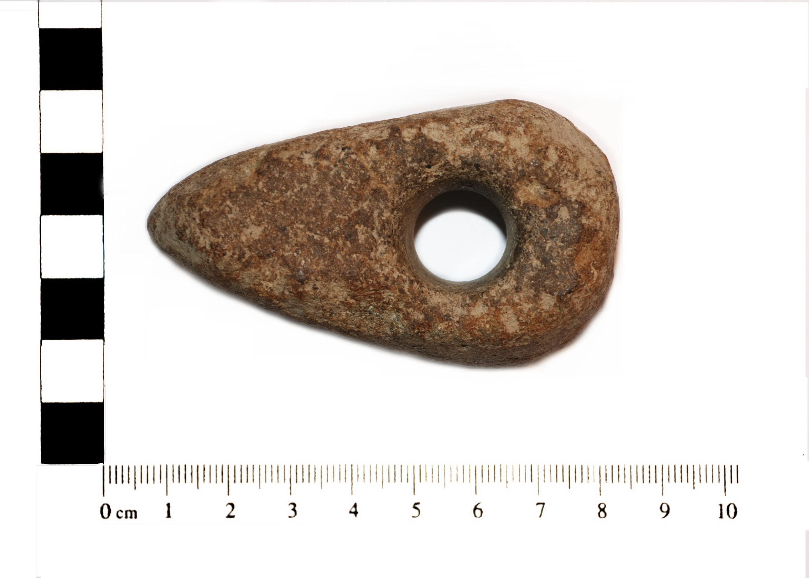 This is a (very) small early Bronze Age/late Neolithic perforated stone axe hammer. The axe is in the form of a ‘teardrop’ with a parallel profile. The perforation is ‘egg timer’ shape, opening from a central diameter of 13.5 mm to 20.7 mm at the outer surface. The overall style is consistent with an early class 1 Axe Hammer from Roe’s ‘Typology of Stone Implements with Shafts’. However, whilst the profile fits, the size does not. This object is very small at just 7.32 cm long, the more typical axe hammer is double that and more. This particular implement may then be ‘votive’ or perhaps even a ‘toy’. As in size and weight, it falls well short of the general class types. The material is beige quartz like with considerable chipping and scarring to the surface. That damage appears to be much later in date as it cuts through the aged surface of the object.